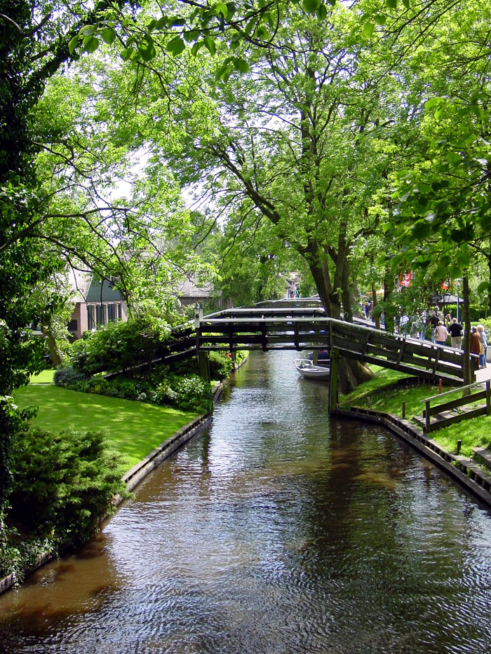 Bridge in Giethoorn